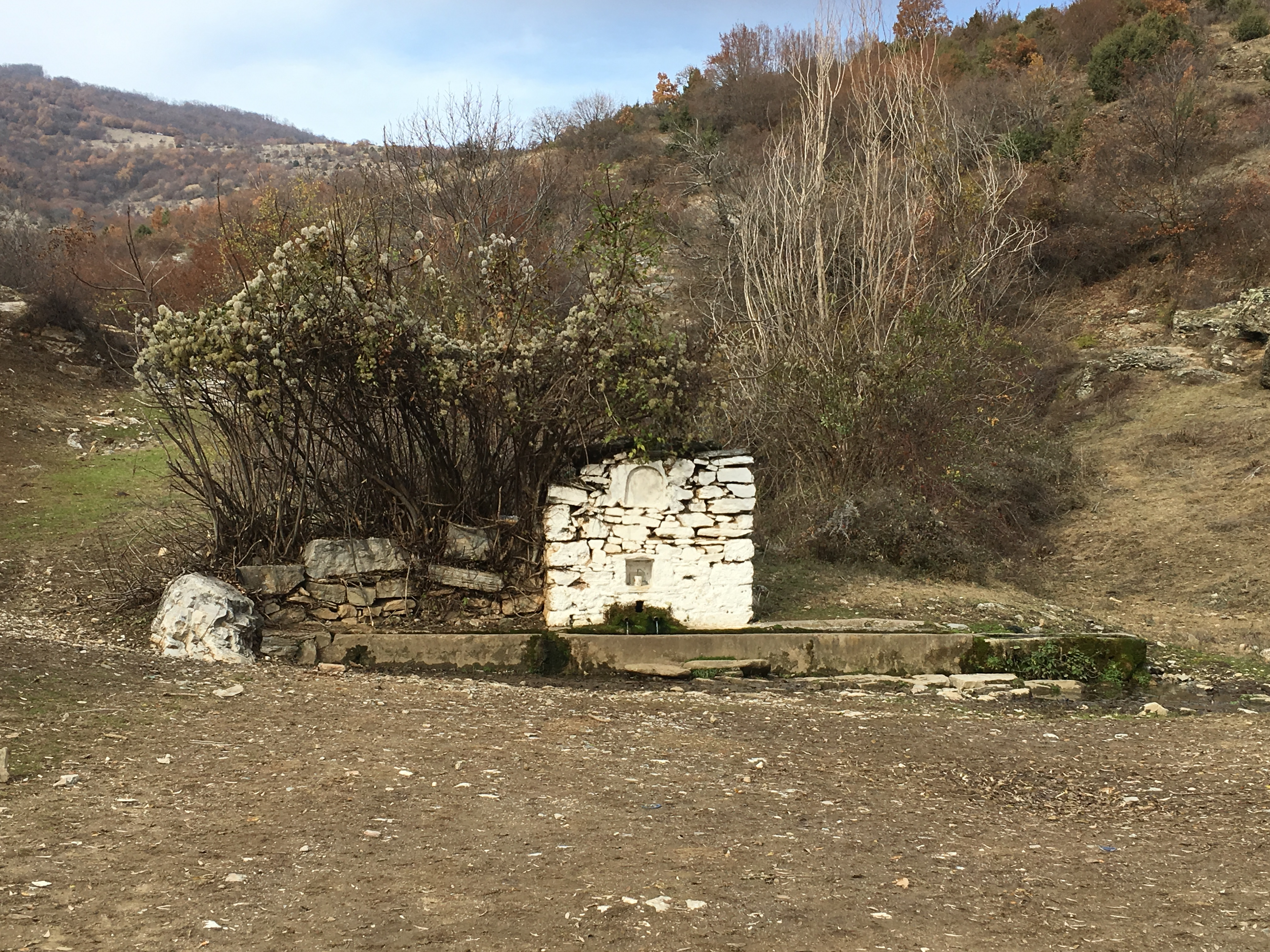 Village pump in Nikodin